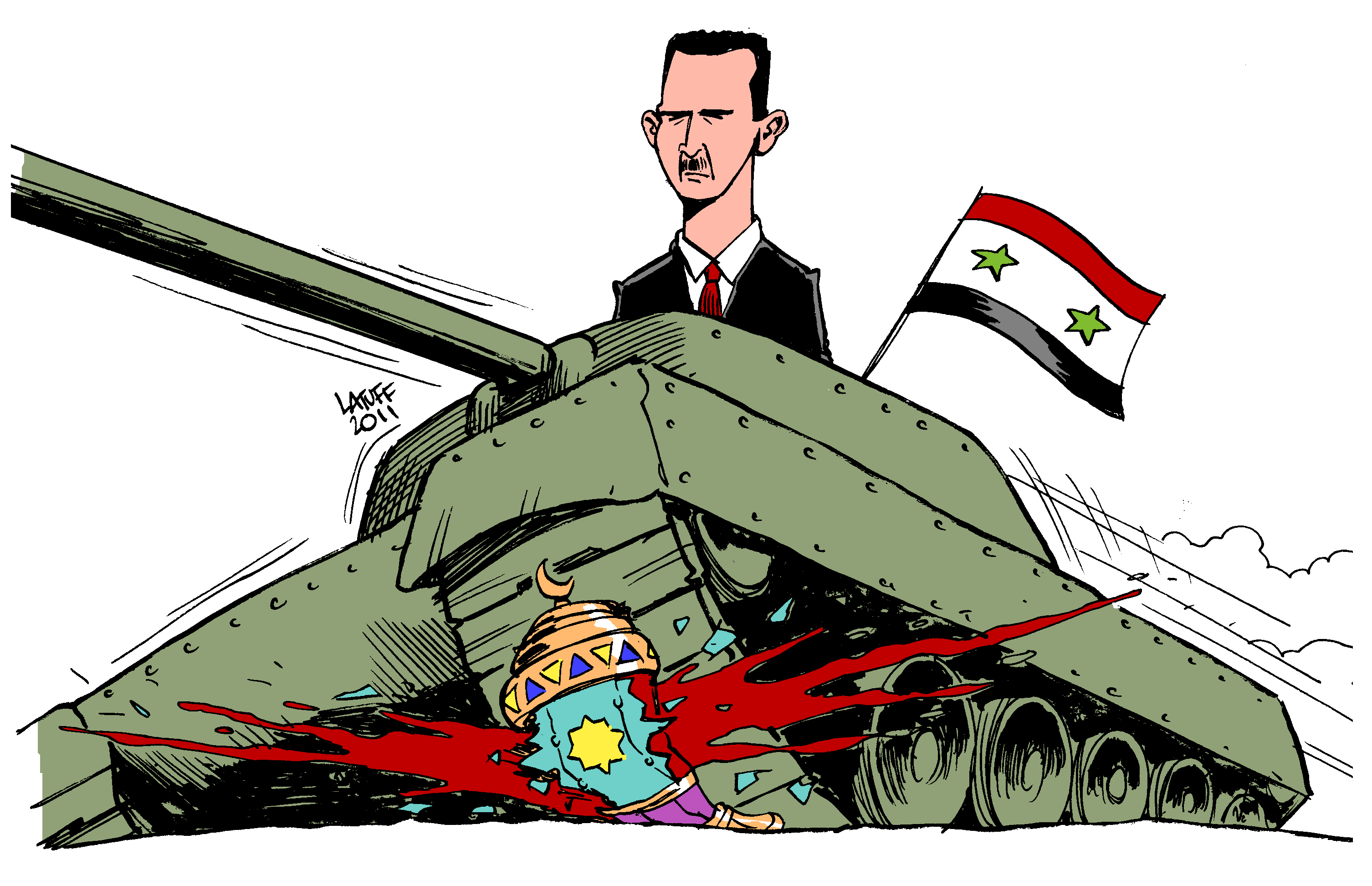 Ramadan Massacre